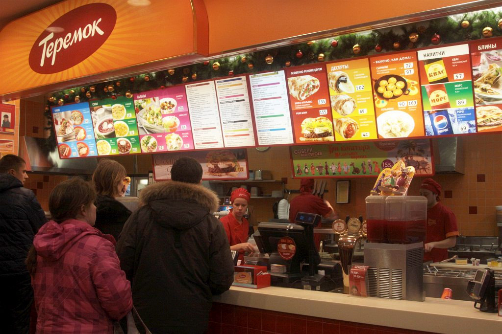 Teremok (Russian: Теремок) is a popular fast food chain in Russia that specializes in Russian crepes (blini). Teremok restaurants are operating in Moscow and Saint Petersburg - this is in Saint Petersburg.